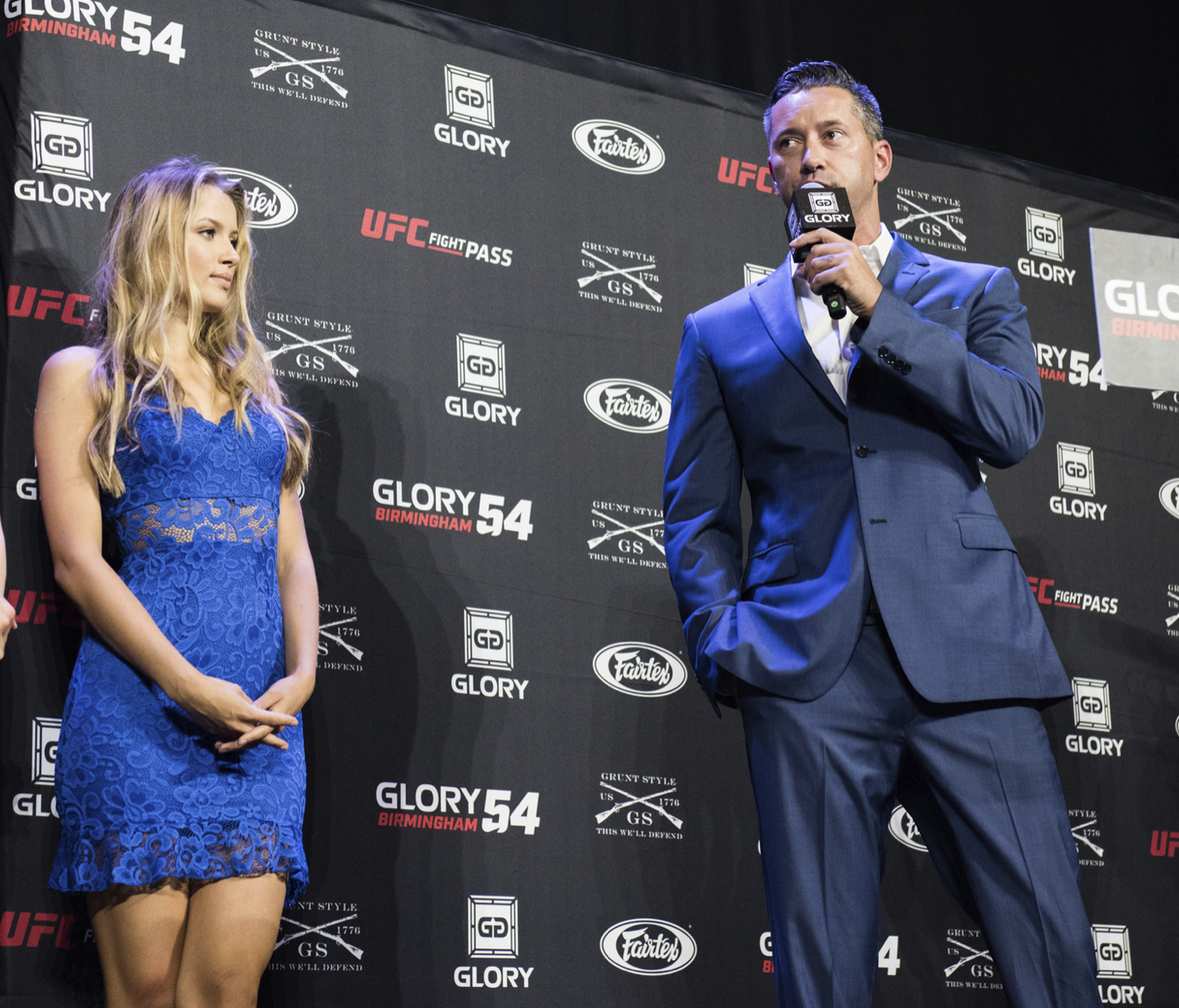 Todd Grisham, sports commentator and TV personality